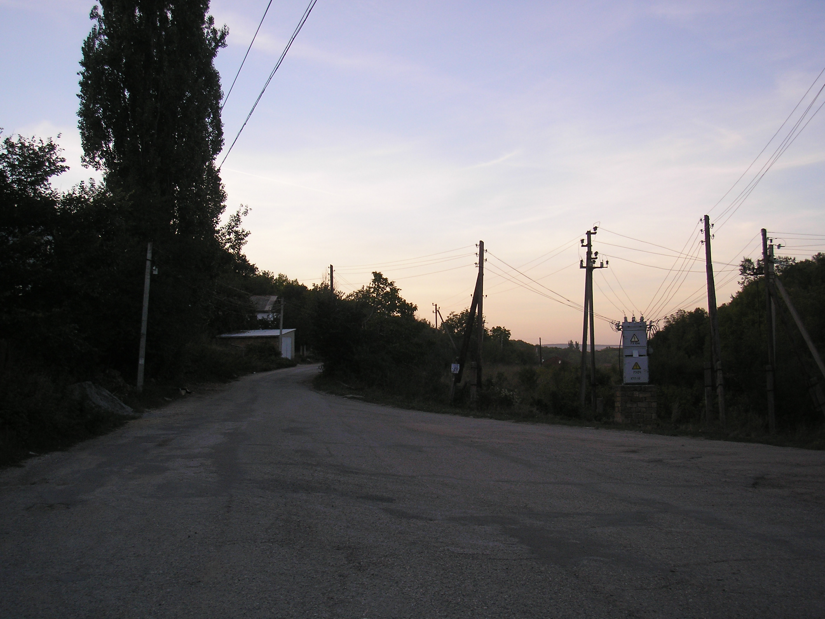 Village Krasnolesye, Simferopol district, Crimea